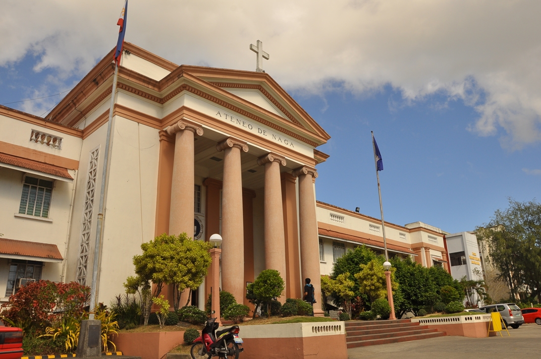 ADNU Four Pillars